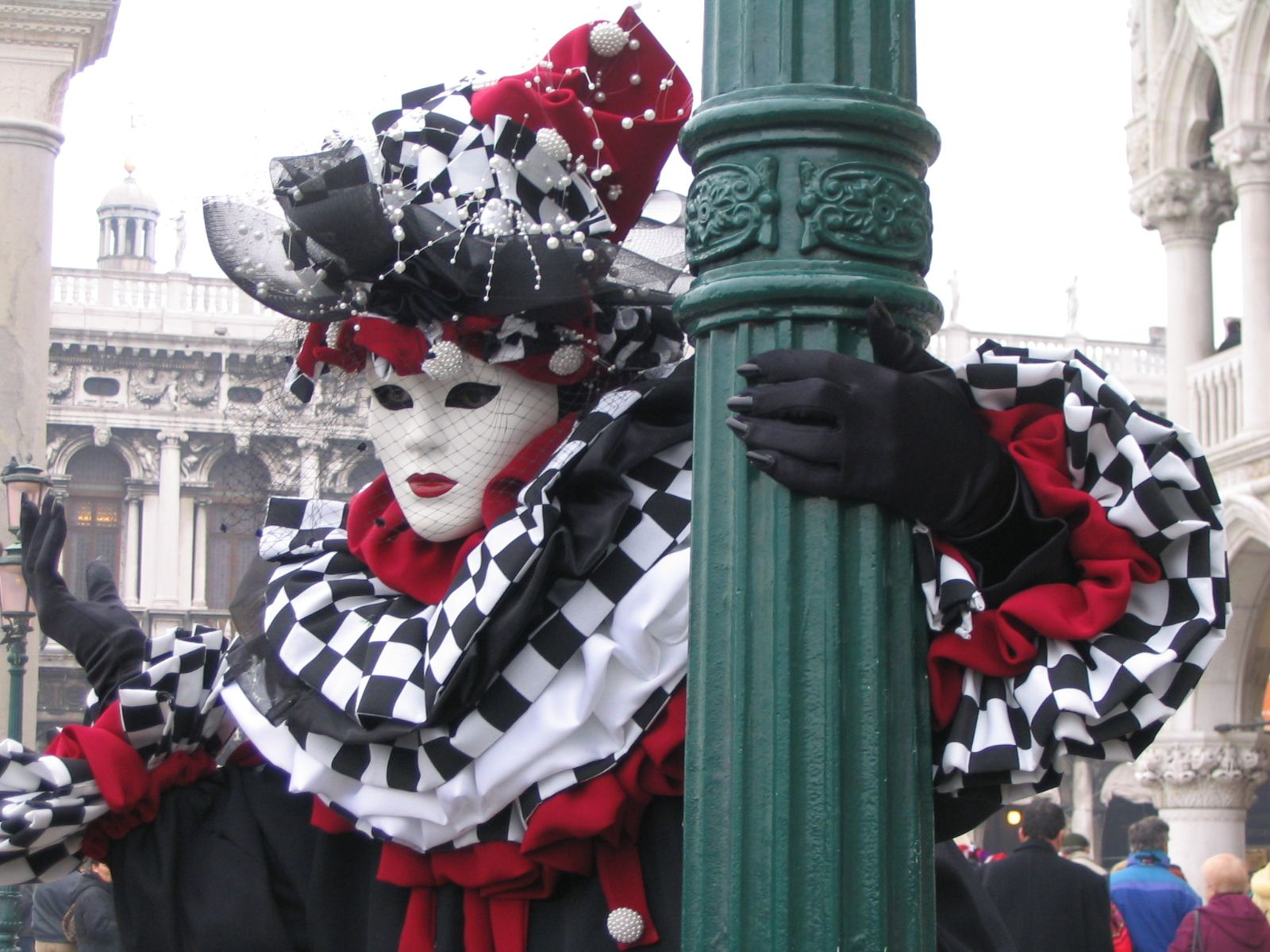 Batch Photo By wanblee =